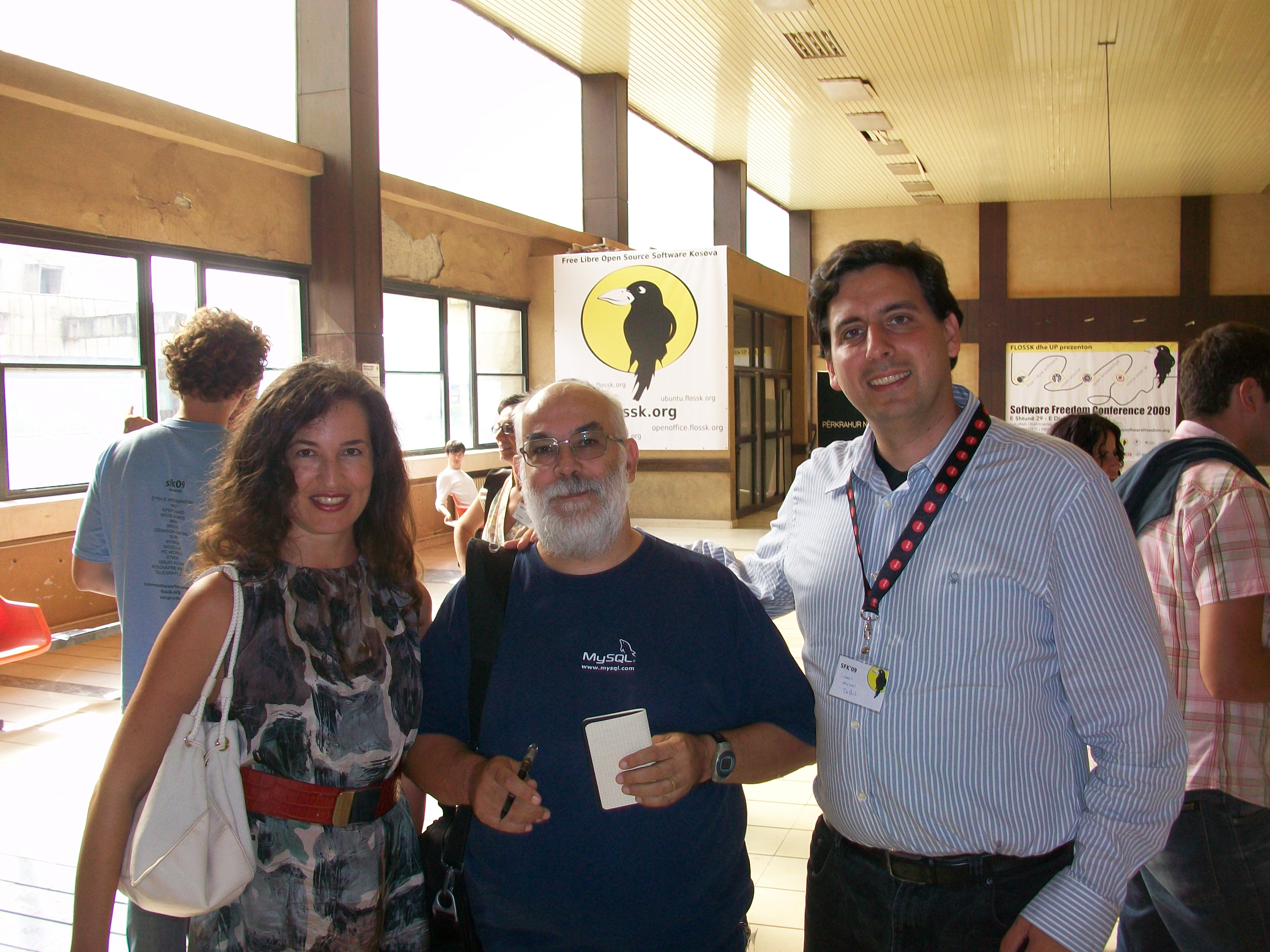 Pictures from Prizren Kosovo